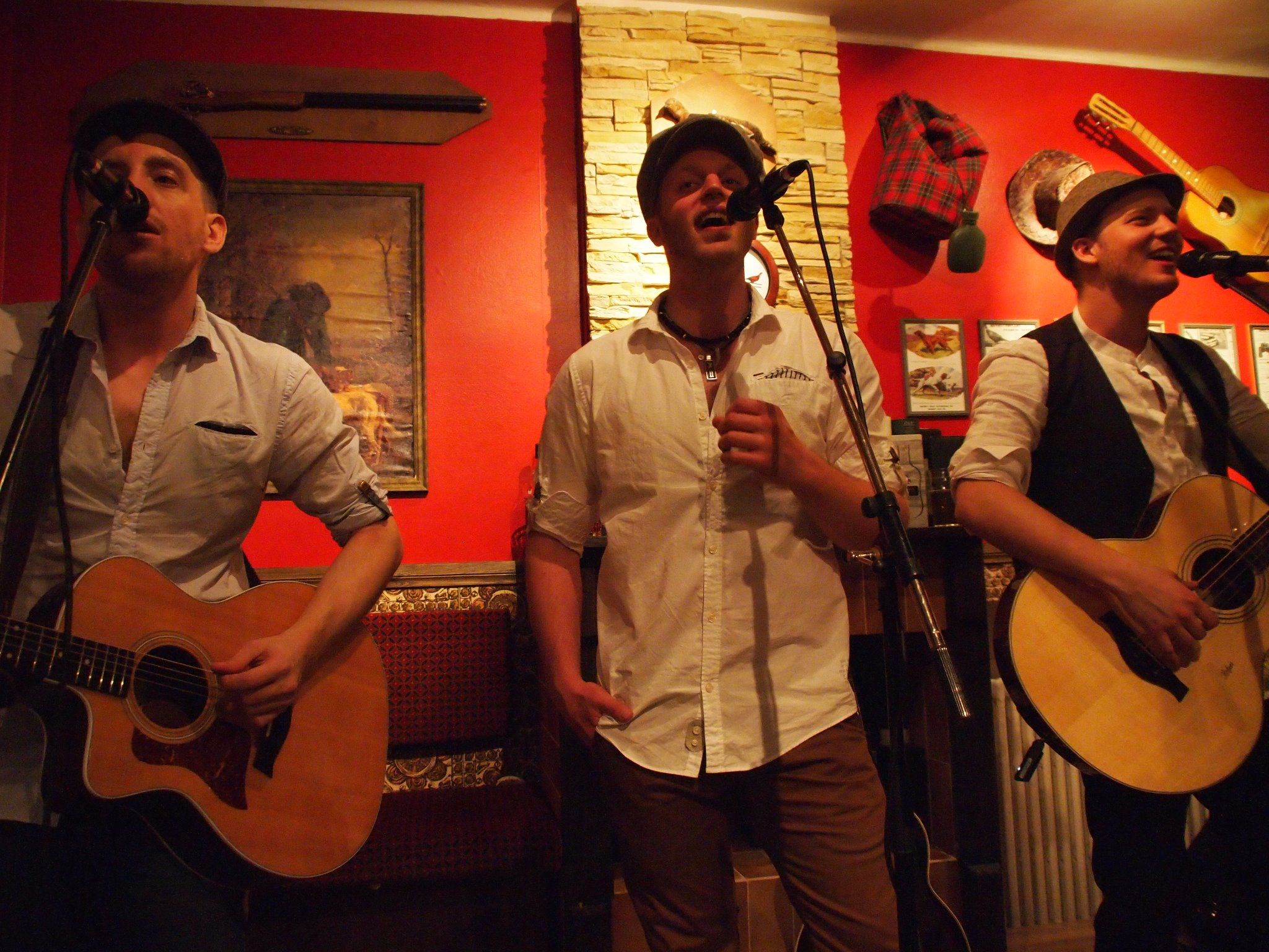 Flute of Shame at pub Maltainen Riekko in Helsinki 31.3.2012 Acoustic trio (Koop Arponen, Dane Stefaniuk, James Lascelles)